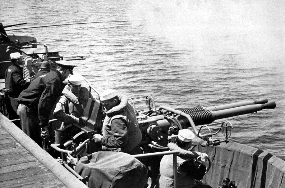 View of a gunnery practice aboard the U.S. Navy escort carrier USS Hollandia (CVE-97), in 1944.